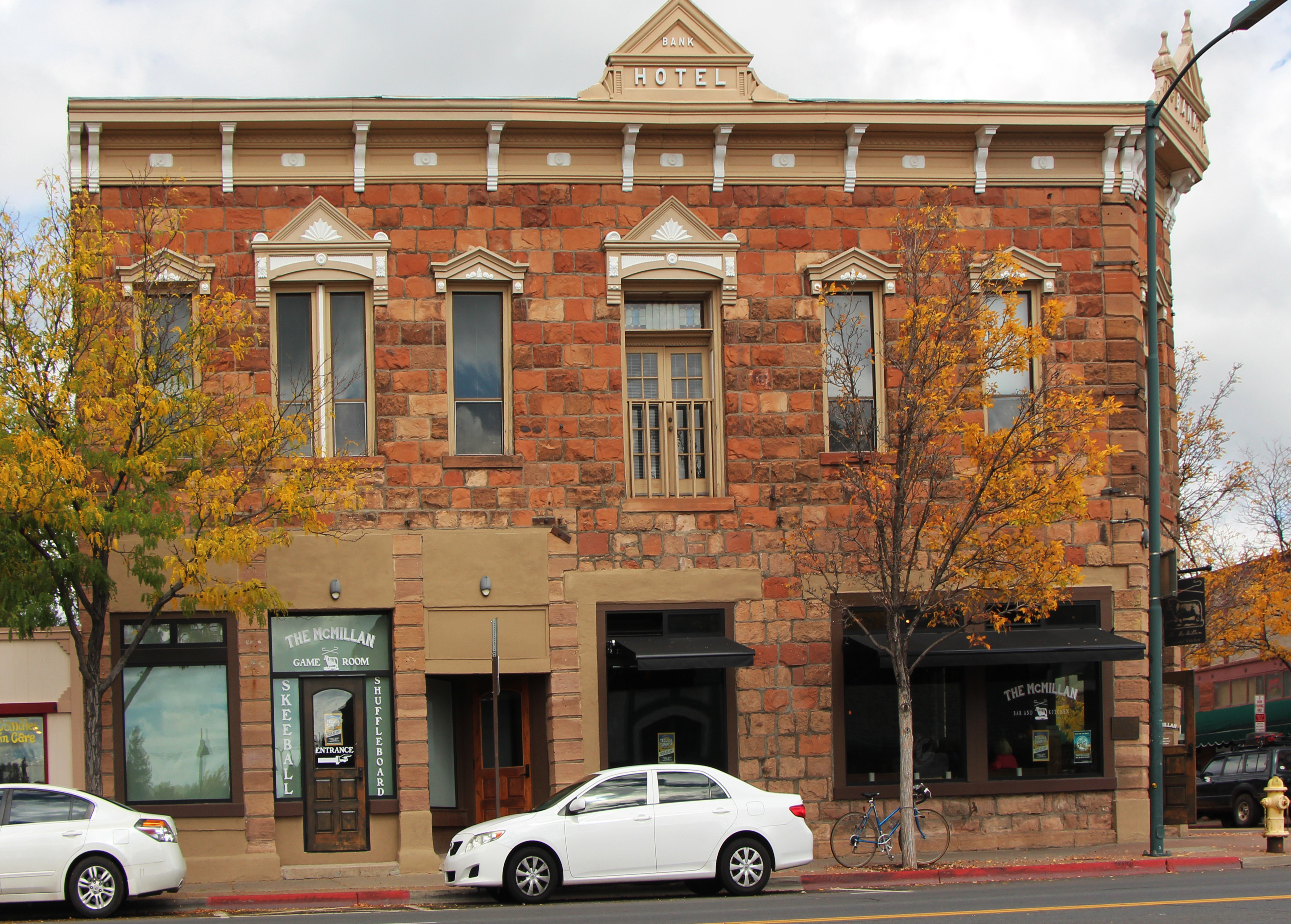 McMillan Building, Northwest corner of Route 66 and Leroux St., Flagstaff, AZ